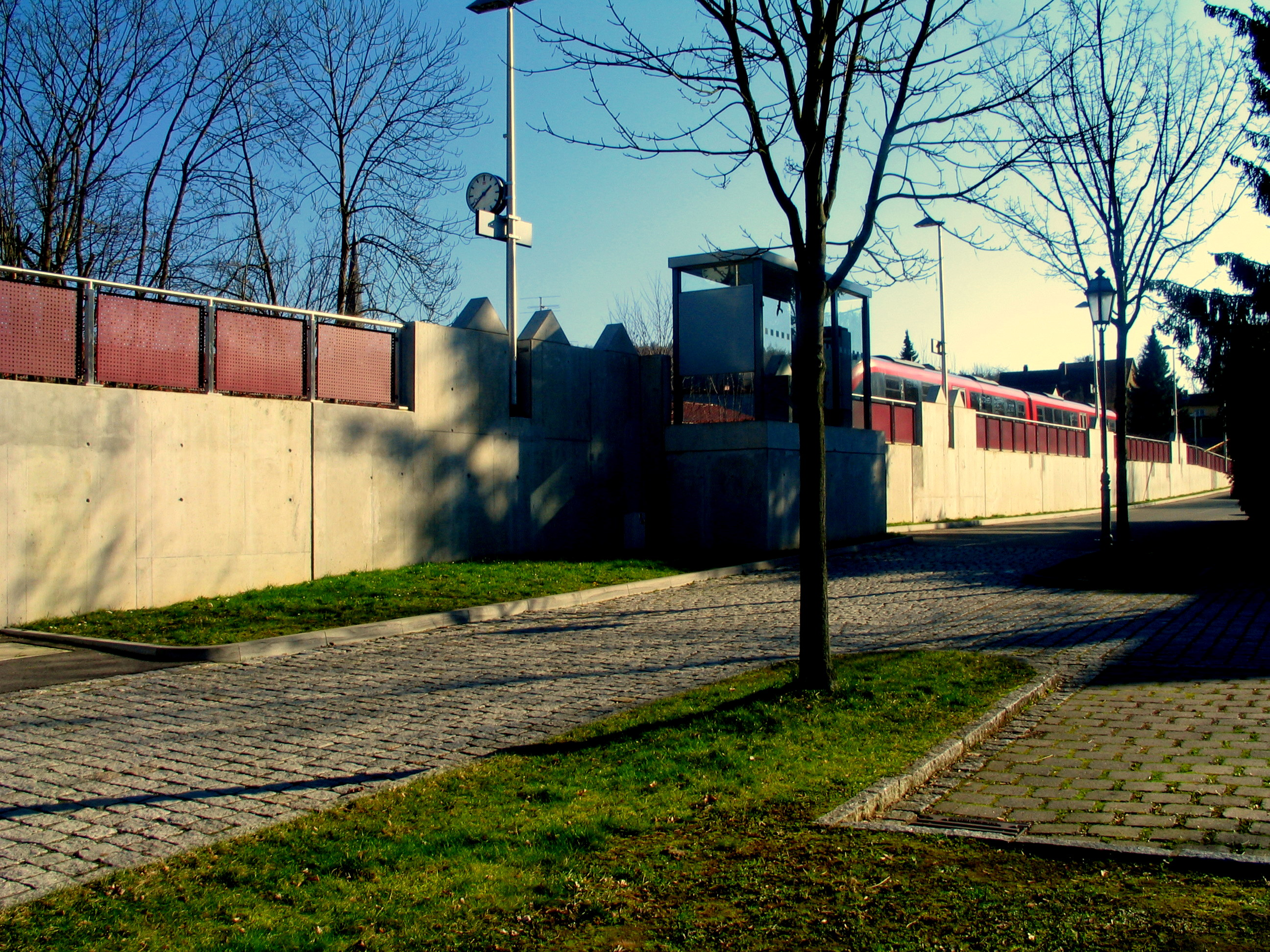 Ebern: New train stop